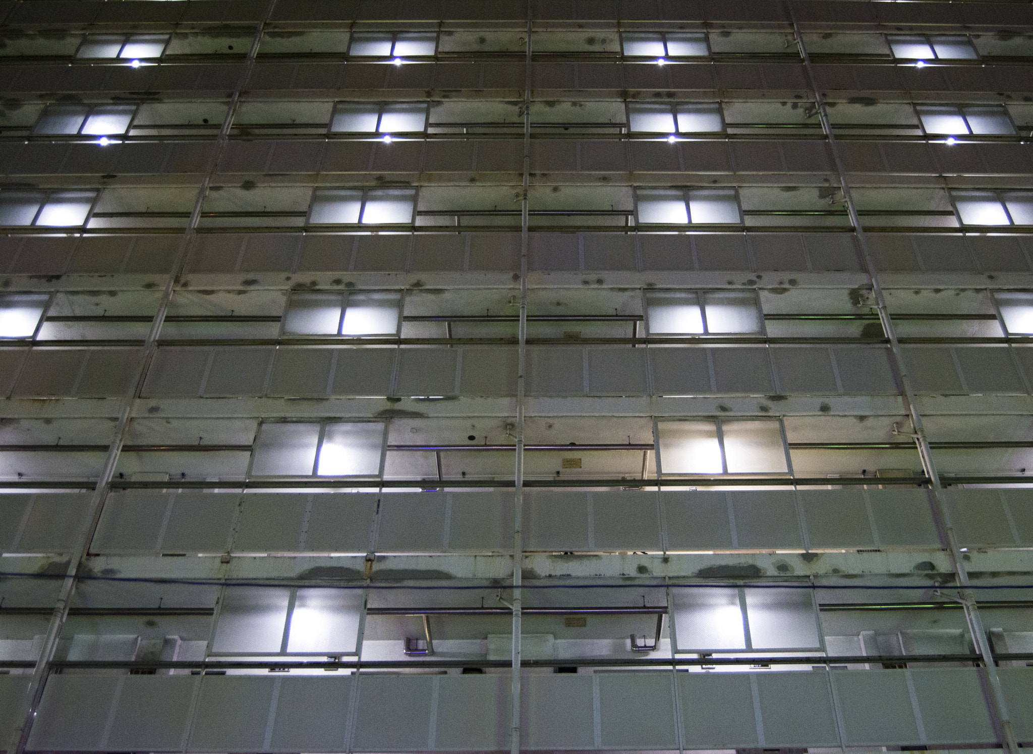 500px provided description: July 2017 [#city ,#night ,#architecture ,#japan ,#tokyo ,#upstairs ,#housing ,#urban geometry]